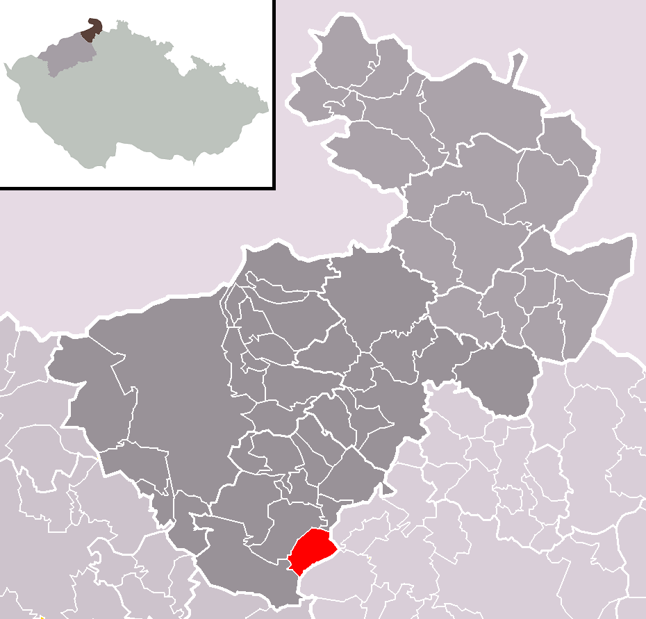 Location of Merboltice municipality within Děčín District and administrative area of Děčín as a Municipality with Extended Competence.